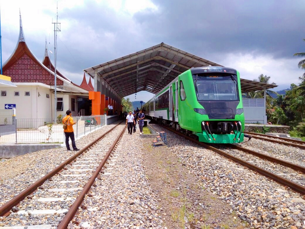 KA Minangkabau Ekspres